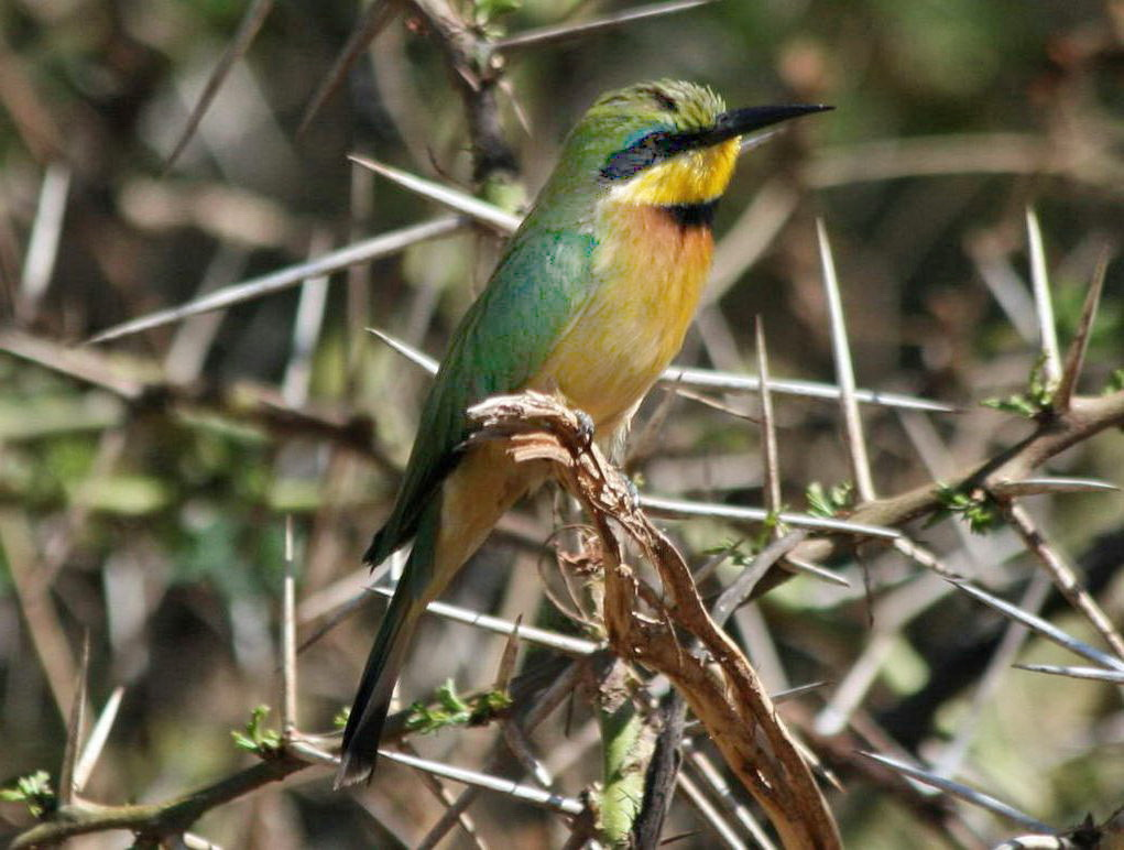 Blue-breasted Bee-eater (Merops variegatus) in Tanzania